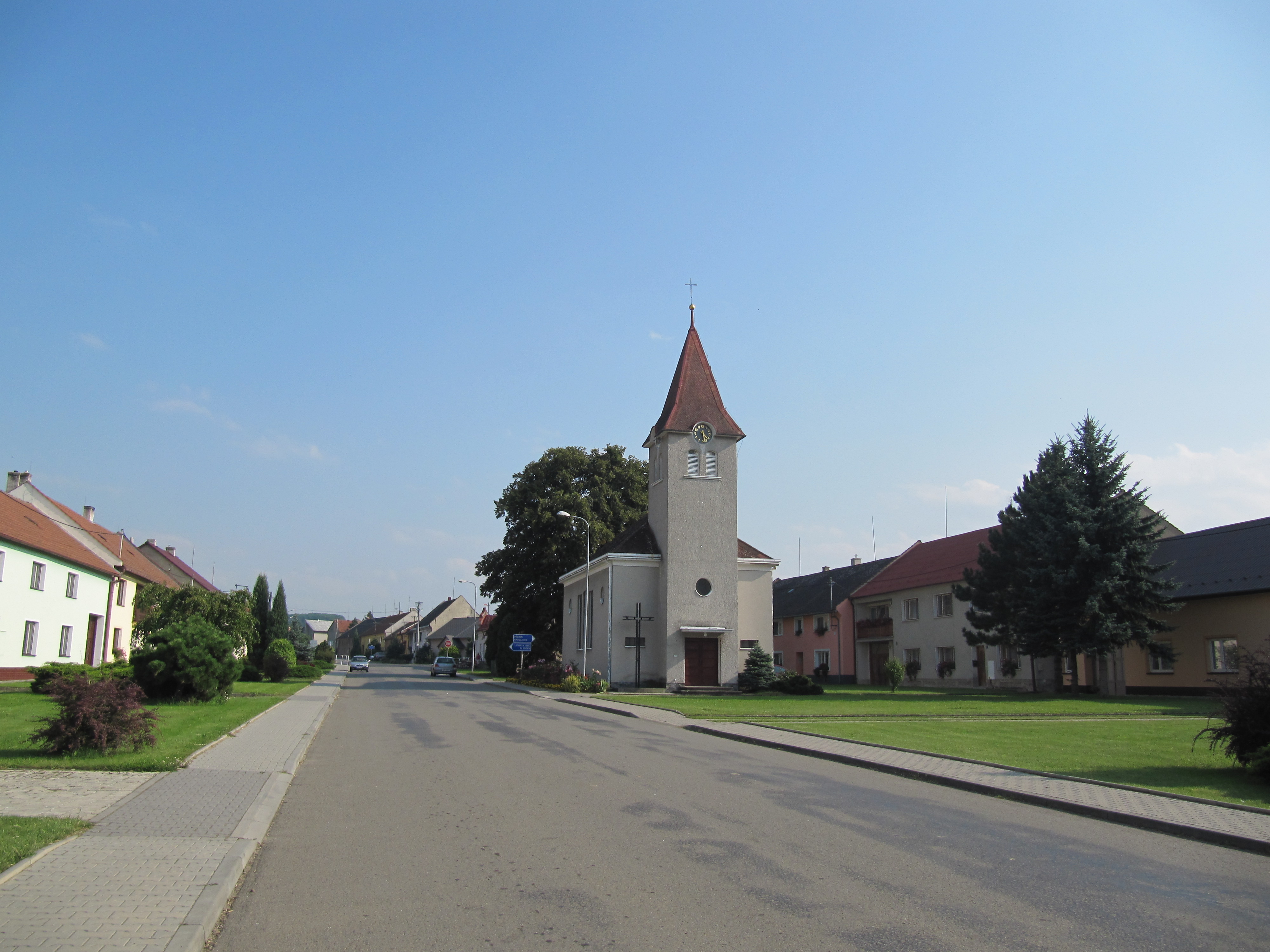 Sušice in Přerov District, Czech Republic. Commin with the chapel of the Visitation. This photograph was taken within the scope of the third year of the 'Czech Municipalities Photographs' grant.